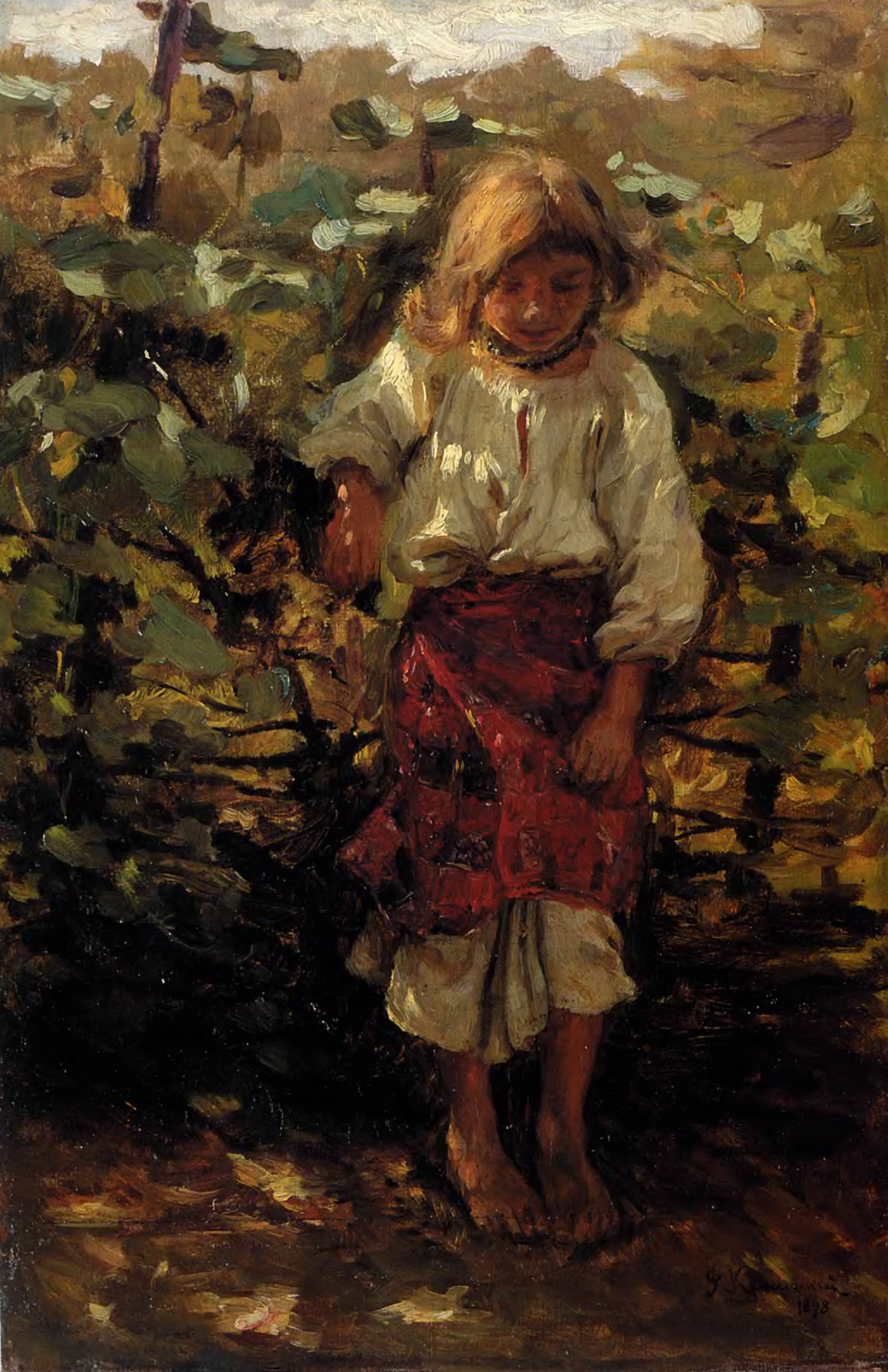 A Peasant Girl by the Wattle-Fence.label QS:Luk,"Полотно на картоні, олія."